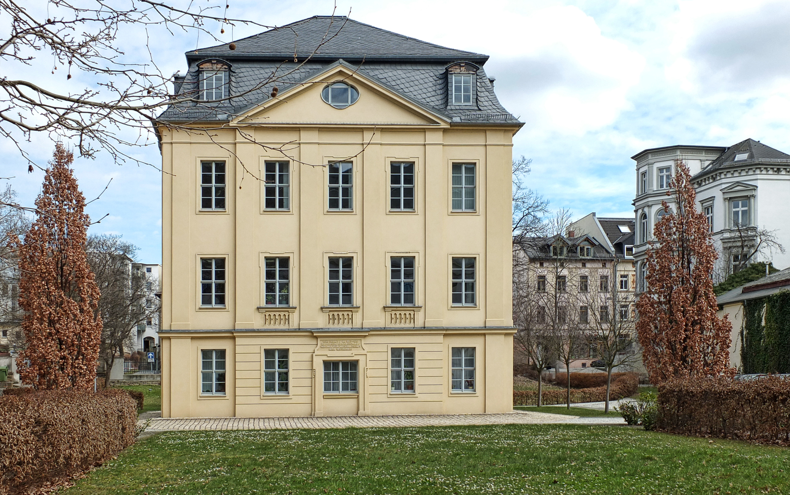 Liebigsches Gartenhaus at Amthorstraße 4 in Gera, Germany; used as Amthorsche Höhere Handelsschule from 1861 to 1925